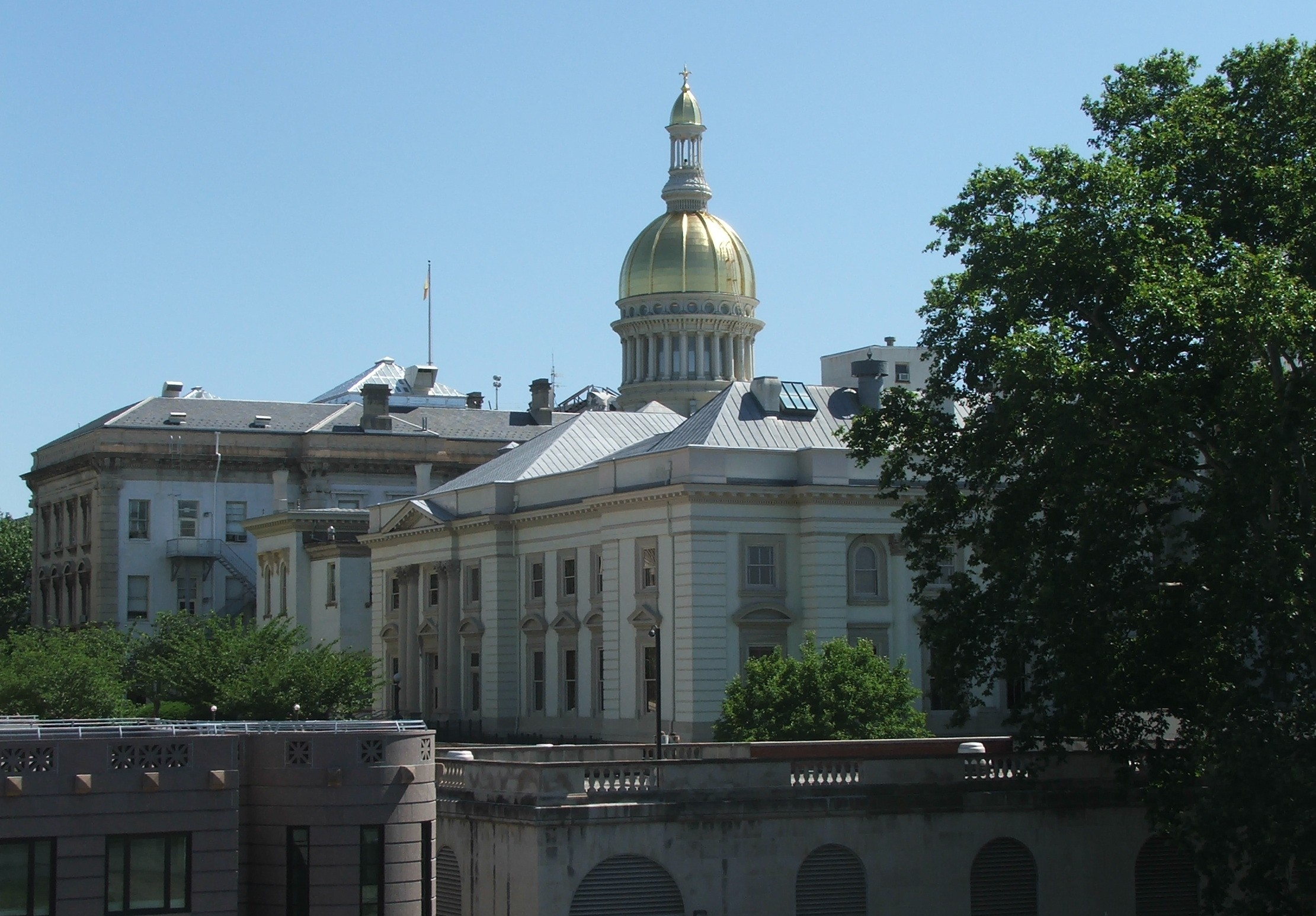 Summary Courtesy of User:68.39.174.238, the New Jersey State House. BD2412 T 21:19, 14 June 2006 (UTC) Licensing